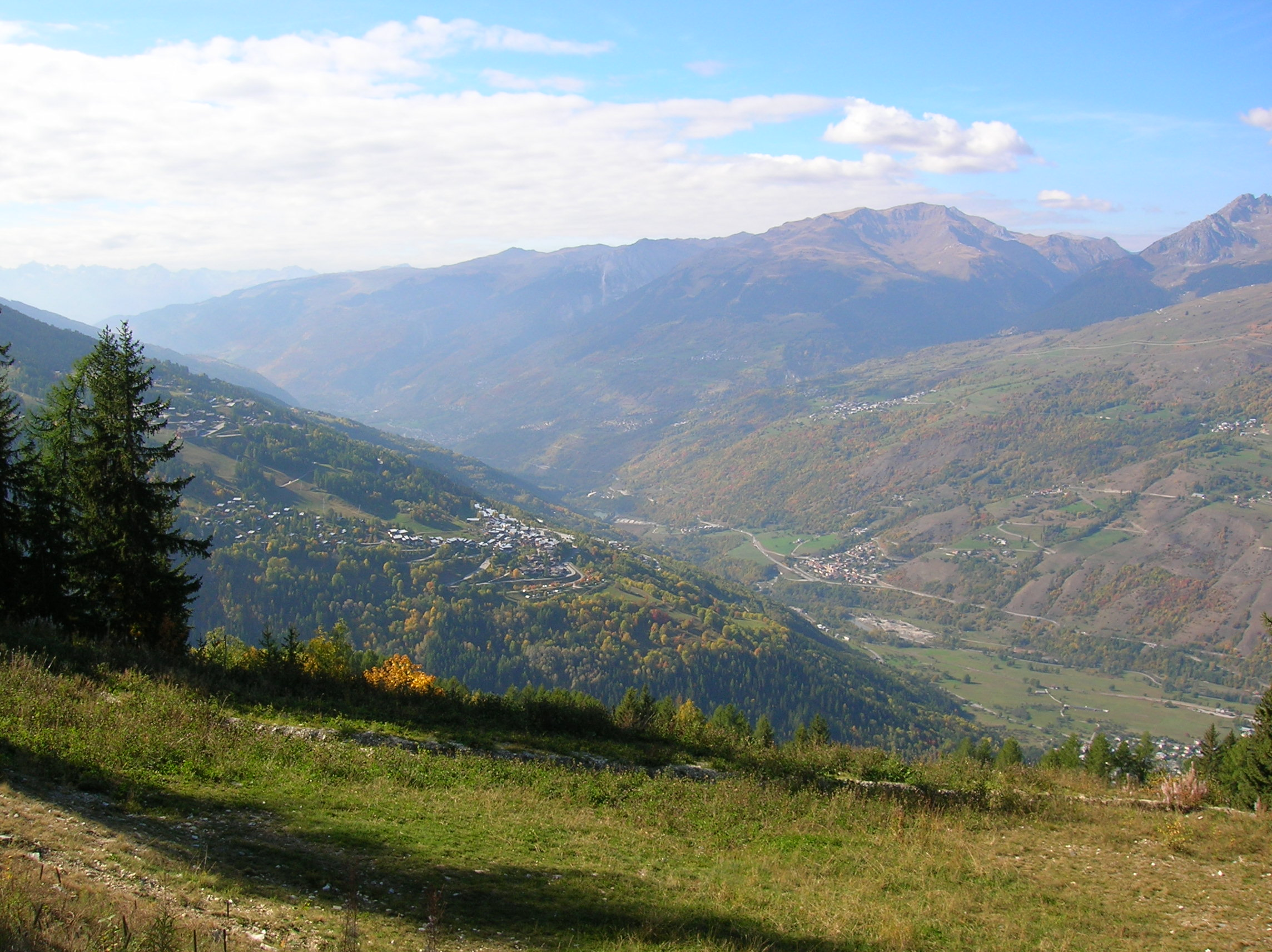 Peisey-Nancroix in Savoy (French Alps)